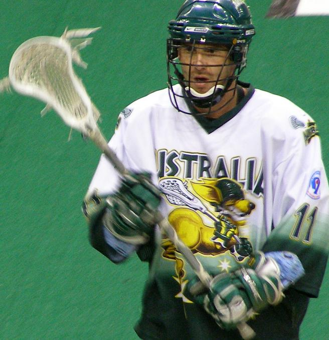 Player from the Australia national indoor lacrosse team at the 2007 World Indoor Lacrosse Championships in Halifax